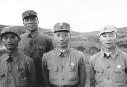 1940 Nie Ronzhen Yang Chenwu. 舒同、聂鹤亭、聂荣臻、杨成武 1940.8